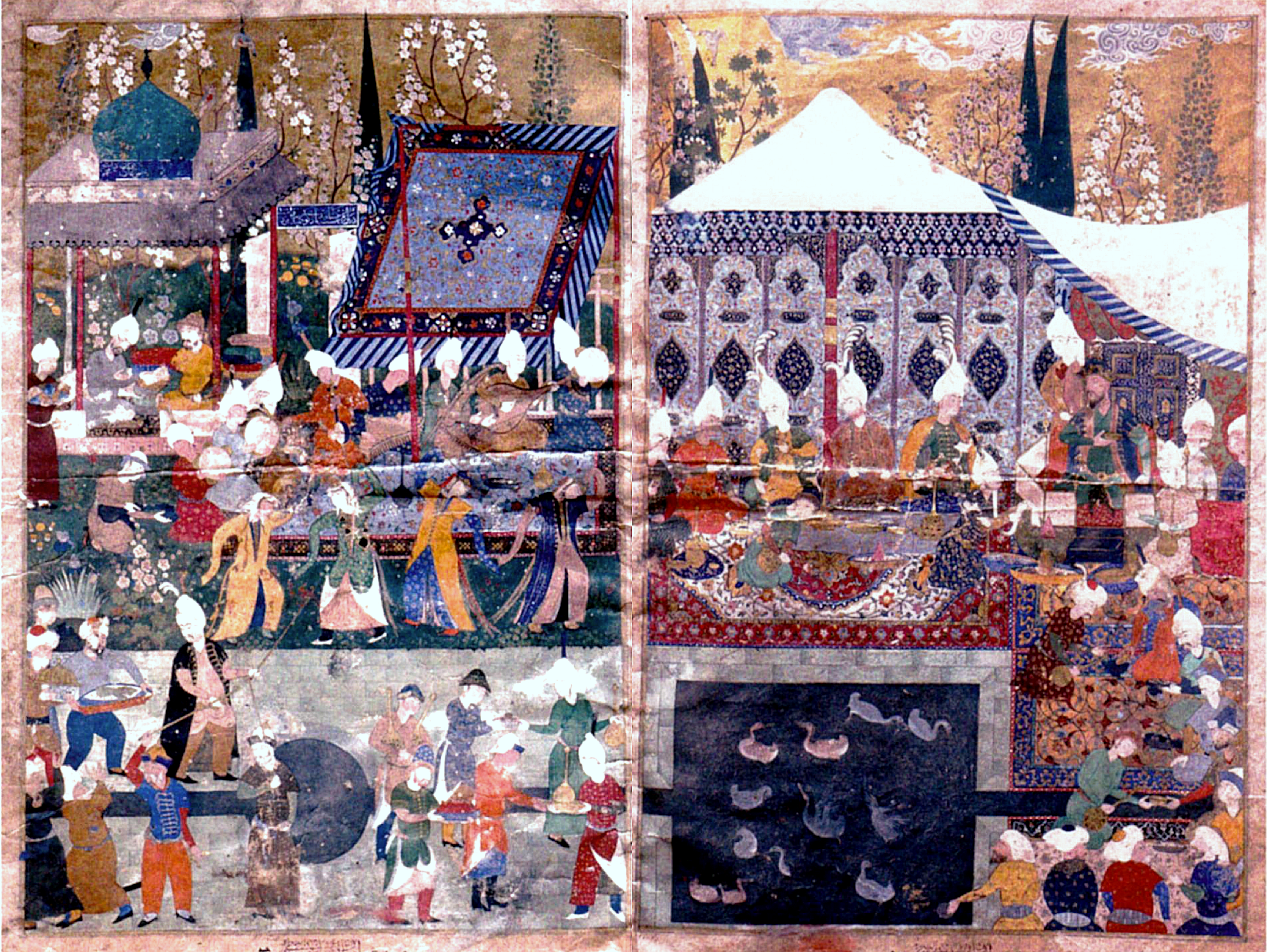 Wedding celebrations for the marriages of Muhammad Sultan, Pir Muhammad, and Shah Rukh at the Bagh-i Bihisht, Samarqand, Zafarnama, fols. 163b–164a